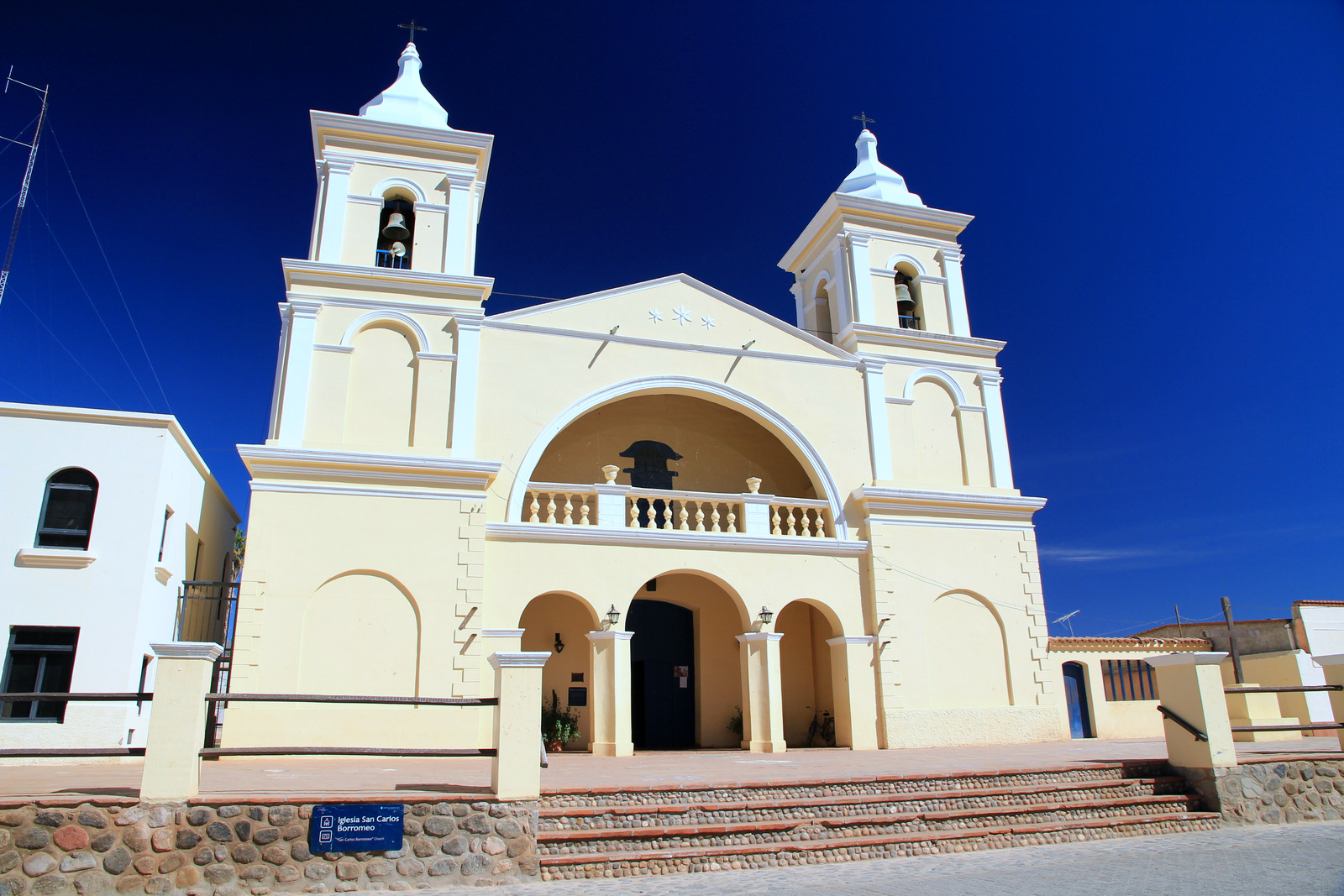 Iglesia de San Carlos de Borromeo